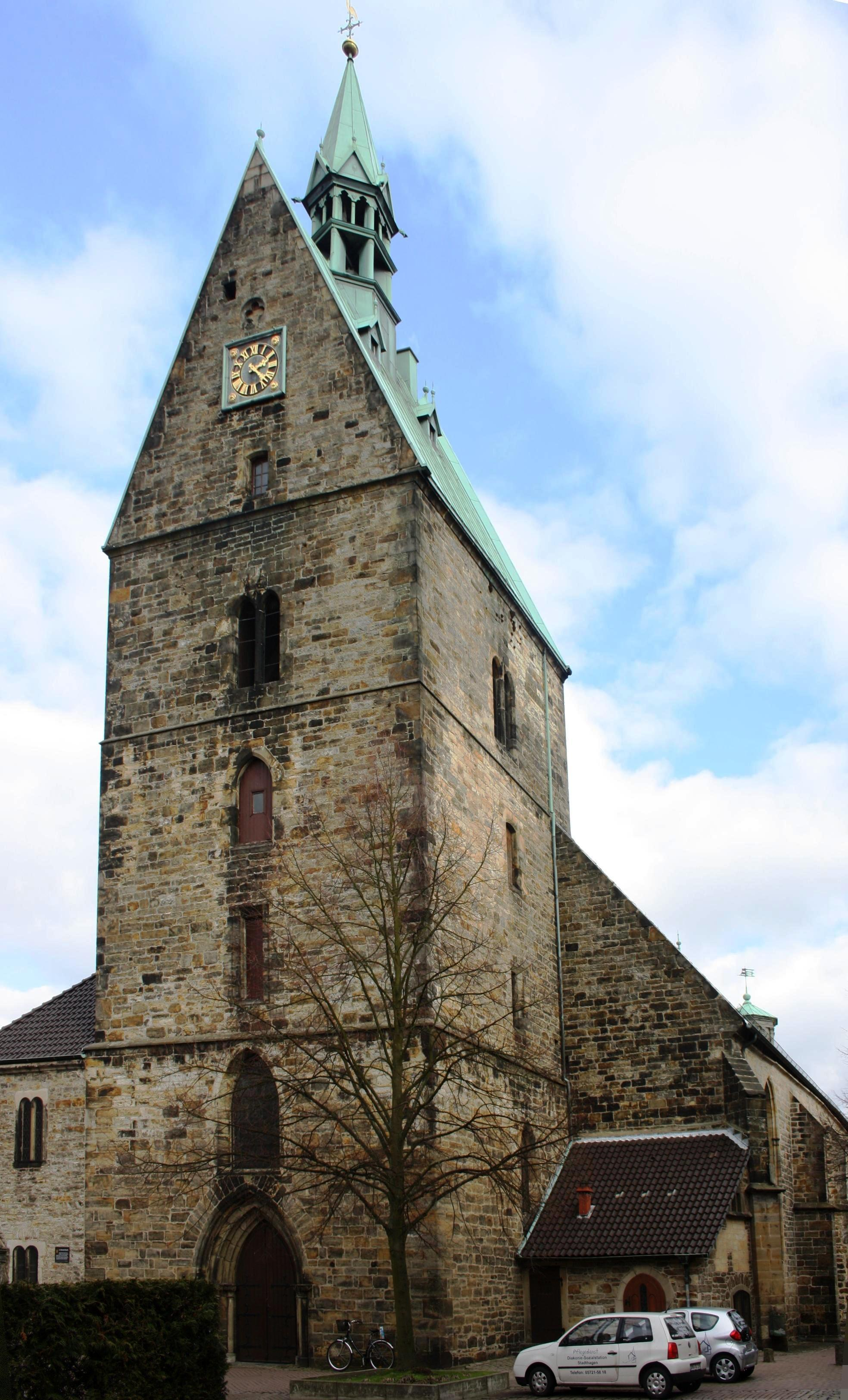 Saint Martin in Stadthagen, Germany. Exterior from West.